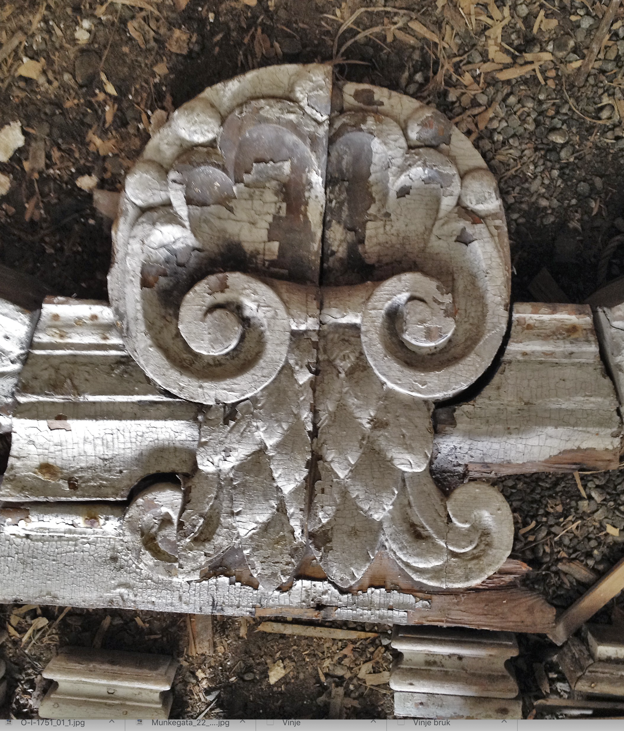 Bygningsdeler fra trepaléet "Harmonien", Munkegaten 22, Trondheim. som brant 27. januar 1942. Noen få bygningsdeler ble reddet, og oppbevares ved Trøndelag folkemuseum, Sverresborg. På bildet: Rokokkoornament fra overstykket over portalen mot Munkegaten.